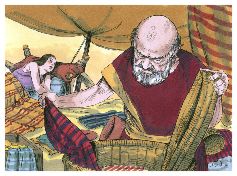 Biblical illustration of Book of Genesis Chapter 31